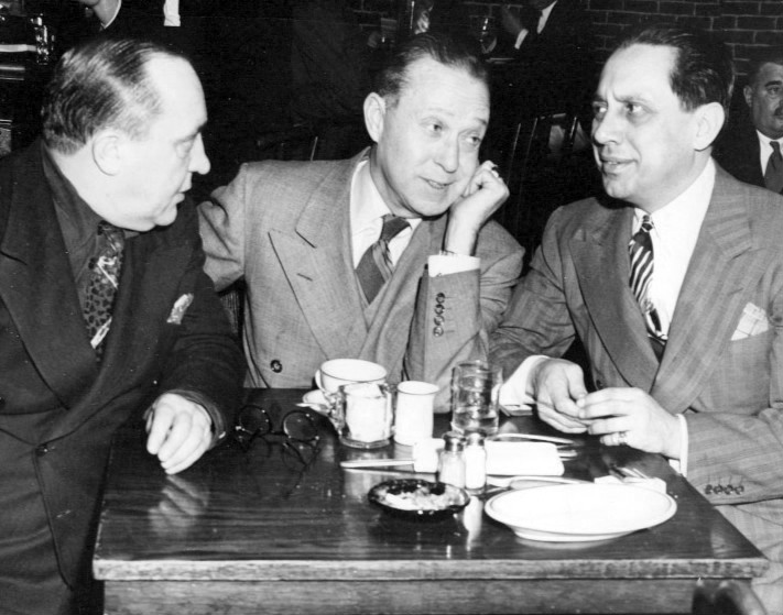 Photo of the comedy team of Olsen and Johnson with comedian Harry Langdon. At left is Chic Johnson, center, Harry Langdon, right Ole Olsen.